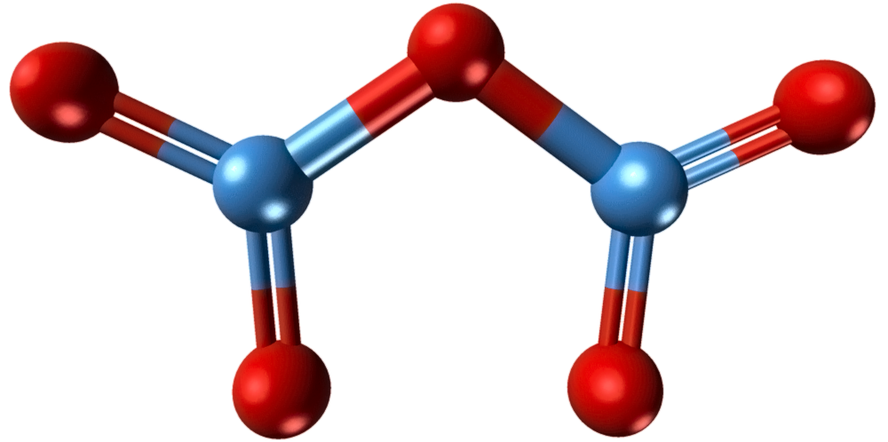 Tantalum pentoxide3D balls